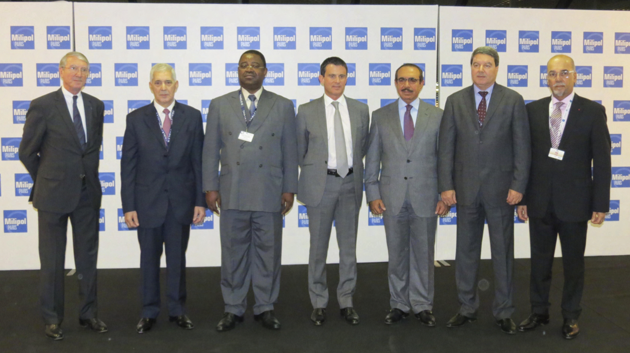 Le Général Major Abdelghani Hamel Directeur Général de la Sureté Nationale, le deuxième à droite, au Salon international Milipol Paris réservé aux professionnels du secteur de la sécurité intérieure des États